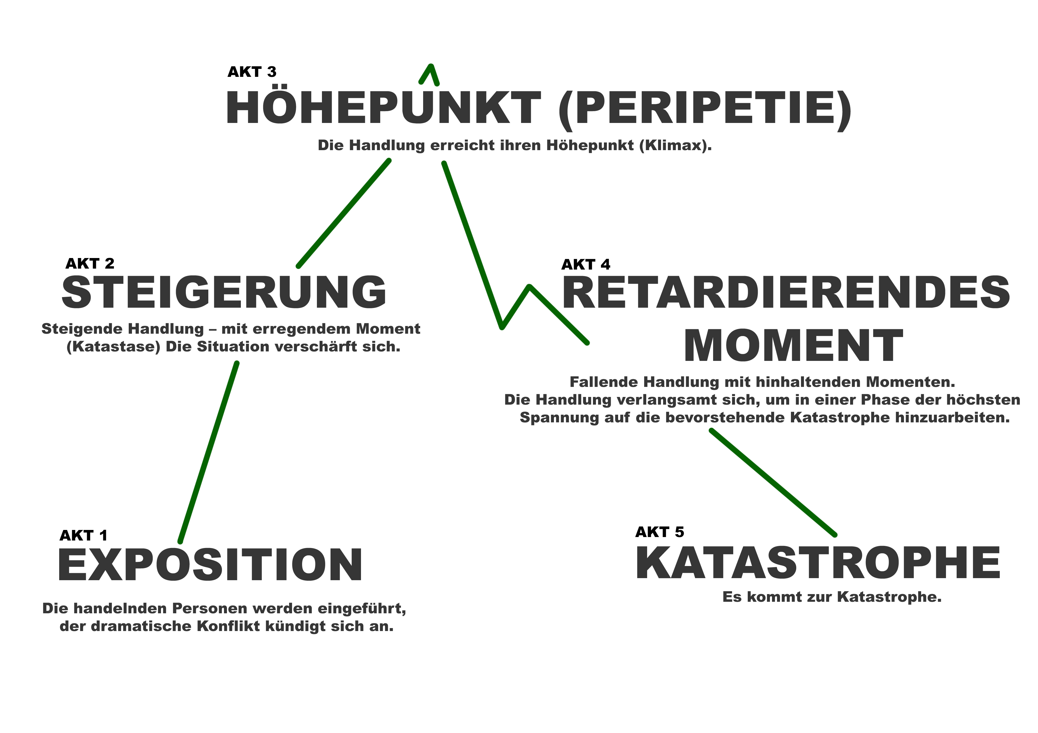 Drama cheme